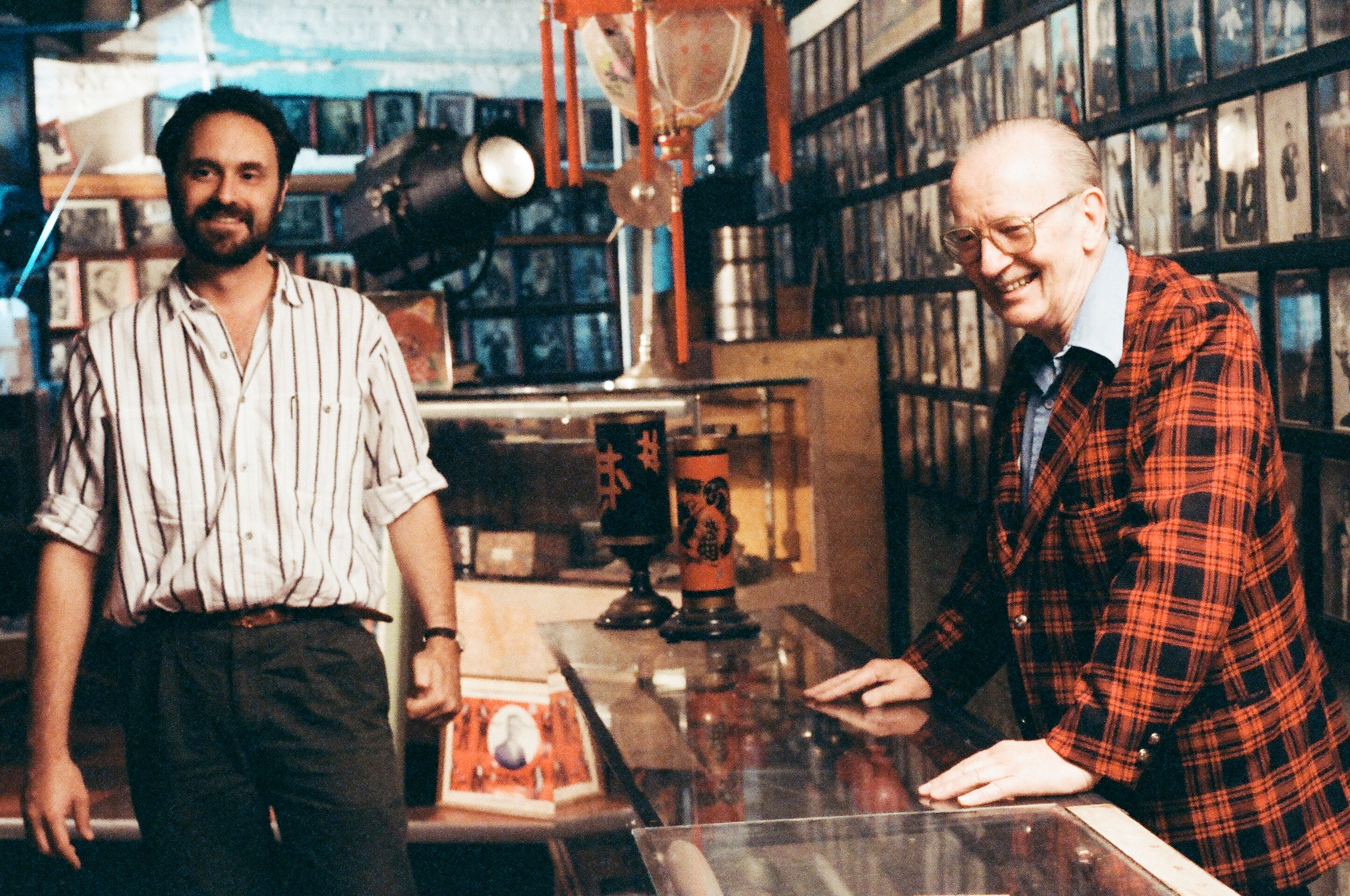 Jim Steinmeyer and Jay Marshall working on British TV series The Secret Cabaret, produced by Open Media for Channel 4